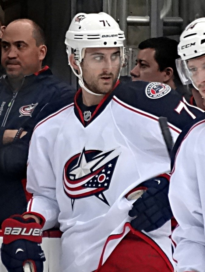 Columbus Blue Jackets forward Nick Foligno during a game against the Pittsburgh Penguins, November 1, 2013, at Consol Energy Center in Pittsburgh, PA.